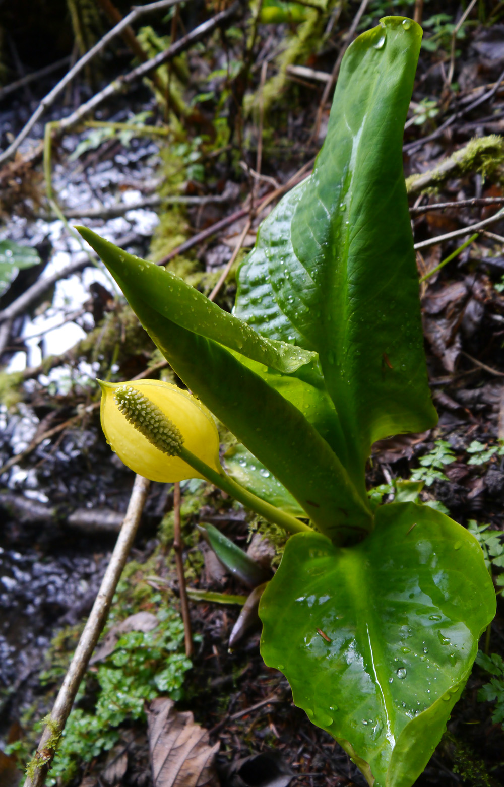 Lysichiton americanus, in its natural habitat. Reedwood NP, California.